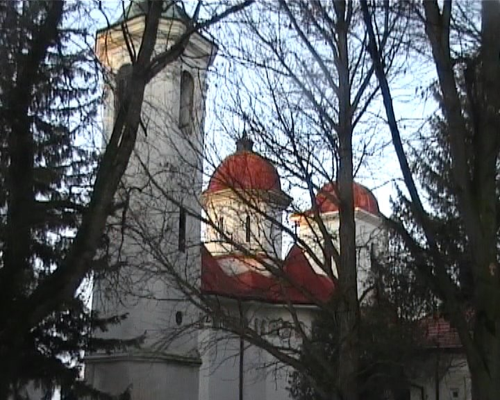 the Hodoș-Bodrog Orthodox monastery near Felnac, Romania